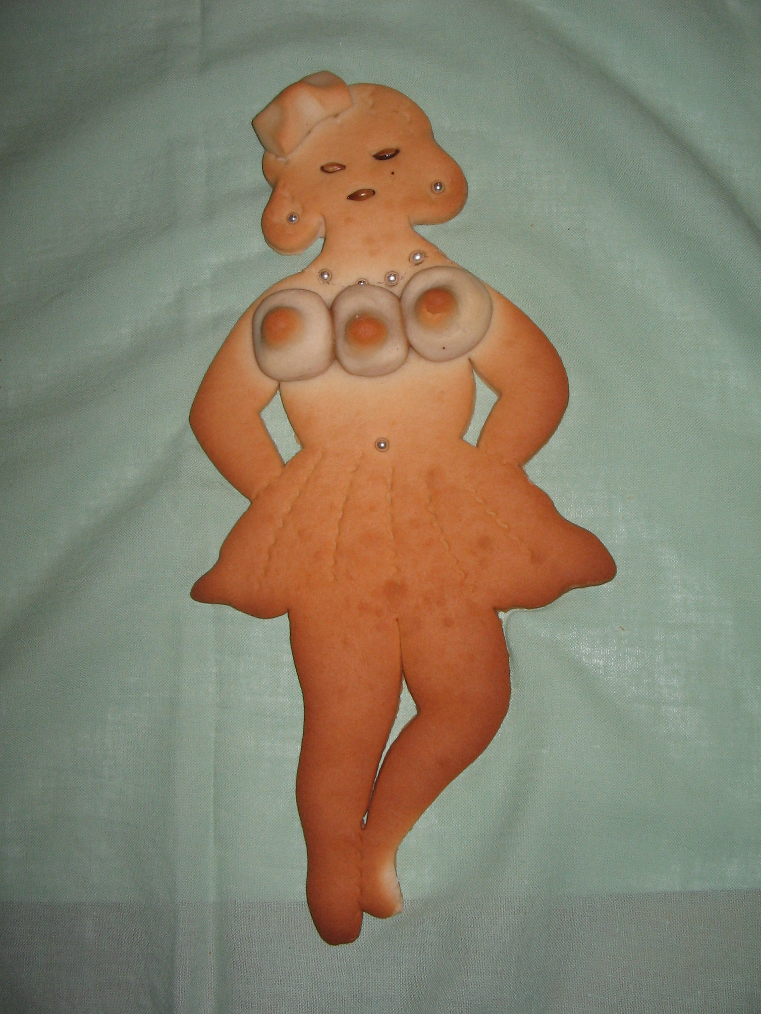 Typical Frascati cookie: a woman with 3 mammary glands